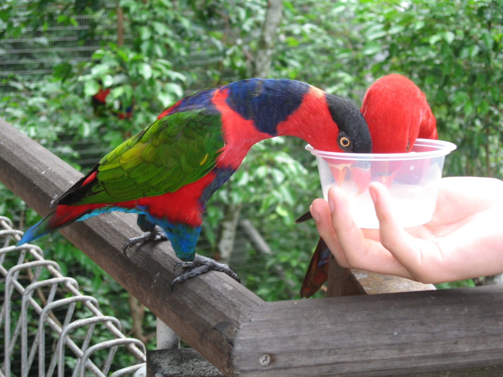 Feeding Lories at the Jurong BirdPark, Singapore. Taken by Terence Ong in November 2006.